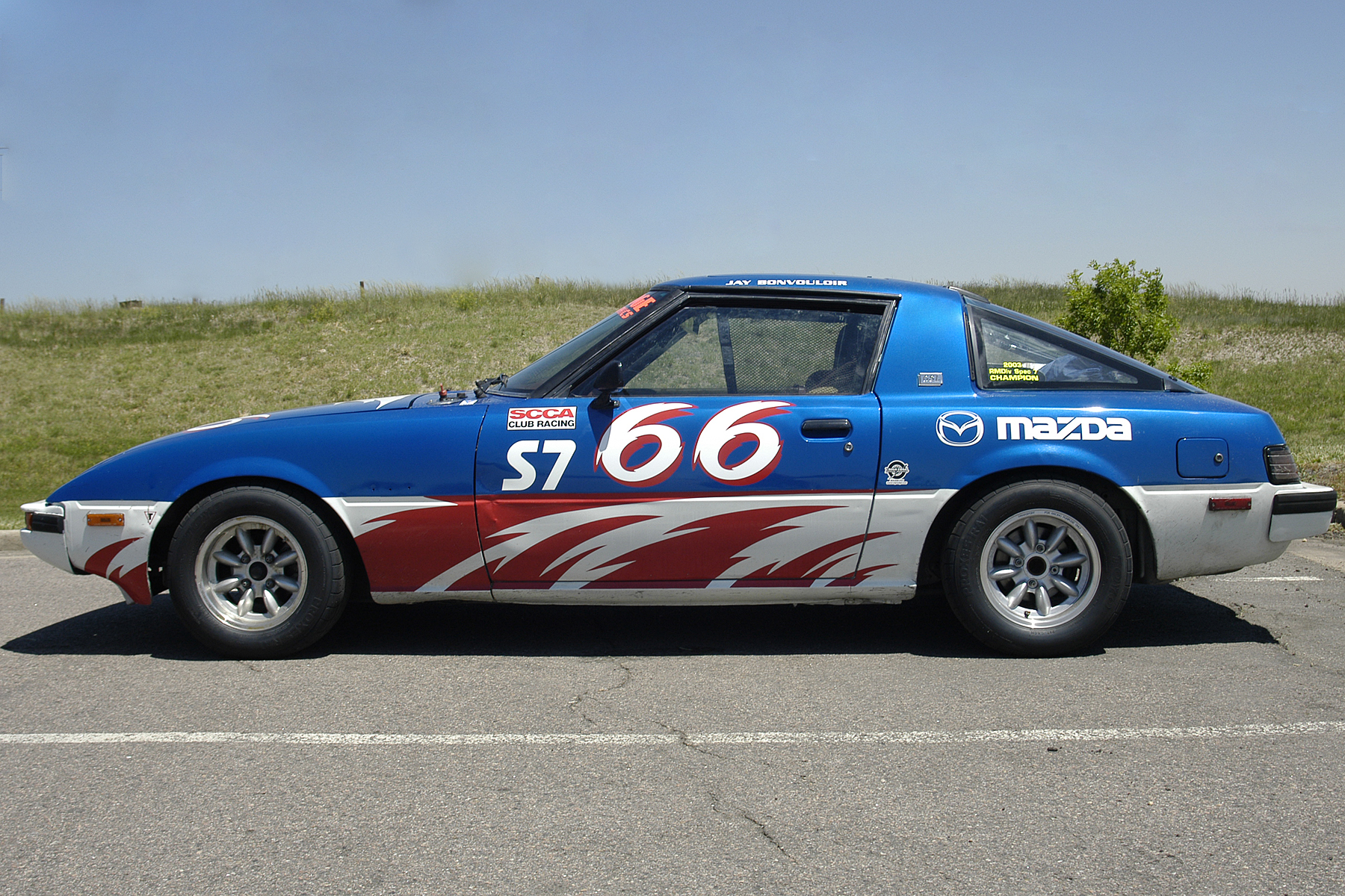 This car was prepped under the Colorado Spec7 rules and won the 2003 RMDiv championship with driver Jay Bonvouloir.